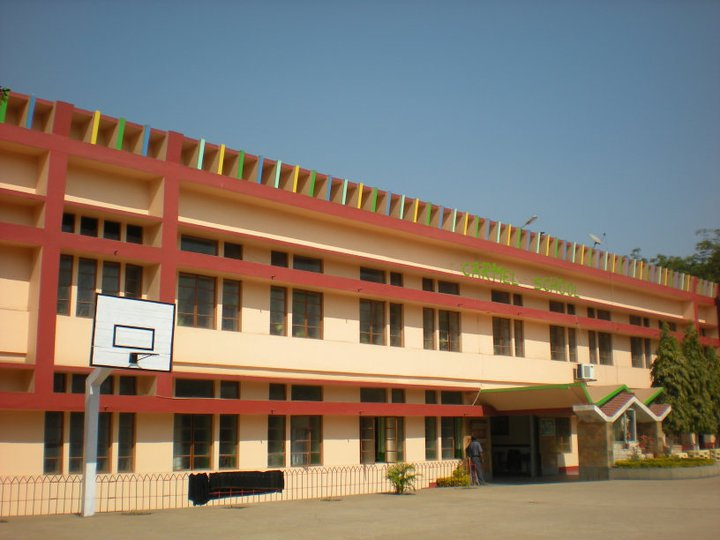 Mt. Carmel Convent School, Rourkela